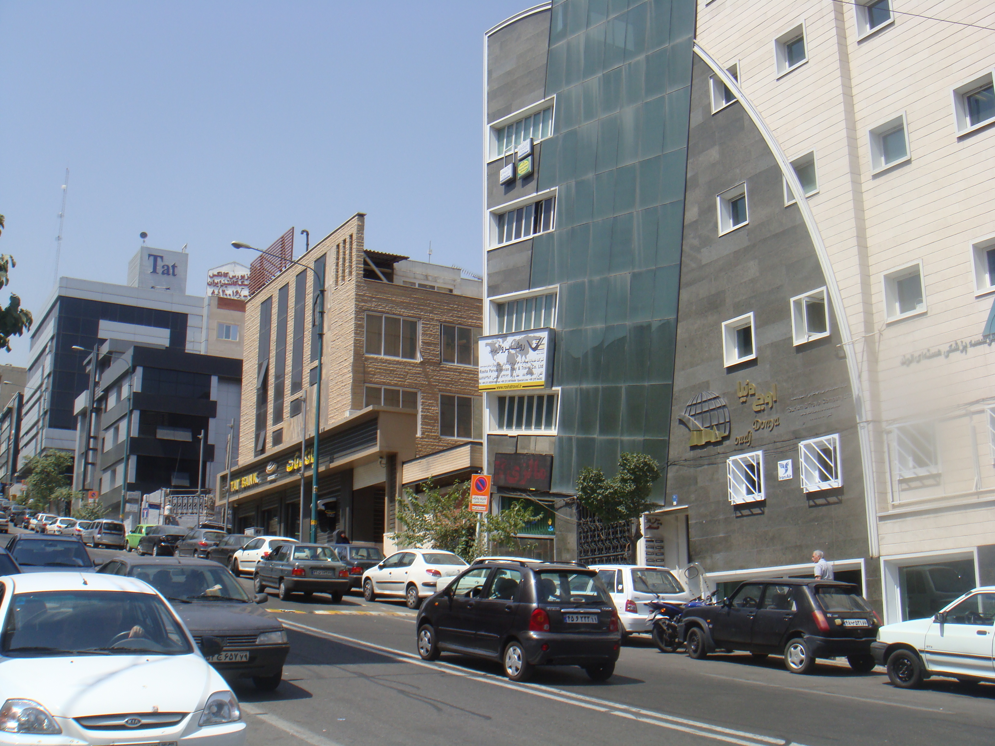 Cars in street of Tehran, Iran